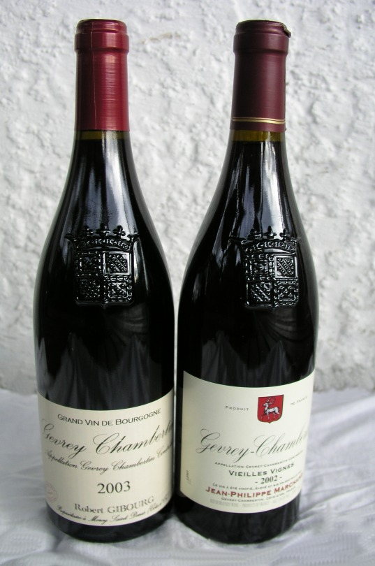 Author: User:Limegreen 2 bottles of Red Burgundy from Gevrey Chambertin, Cote d'Or, Burgundy.